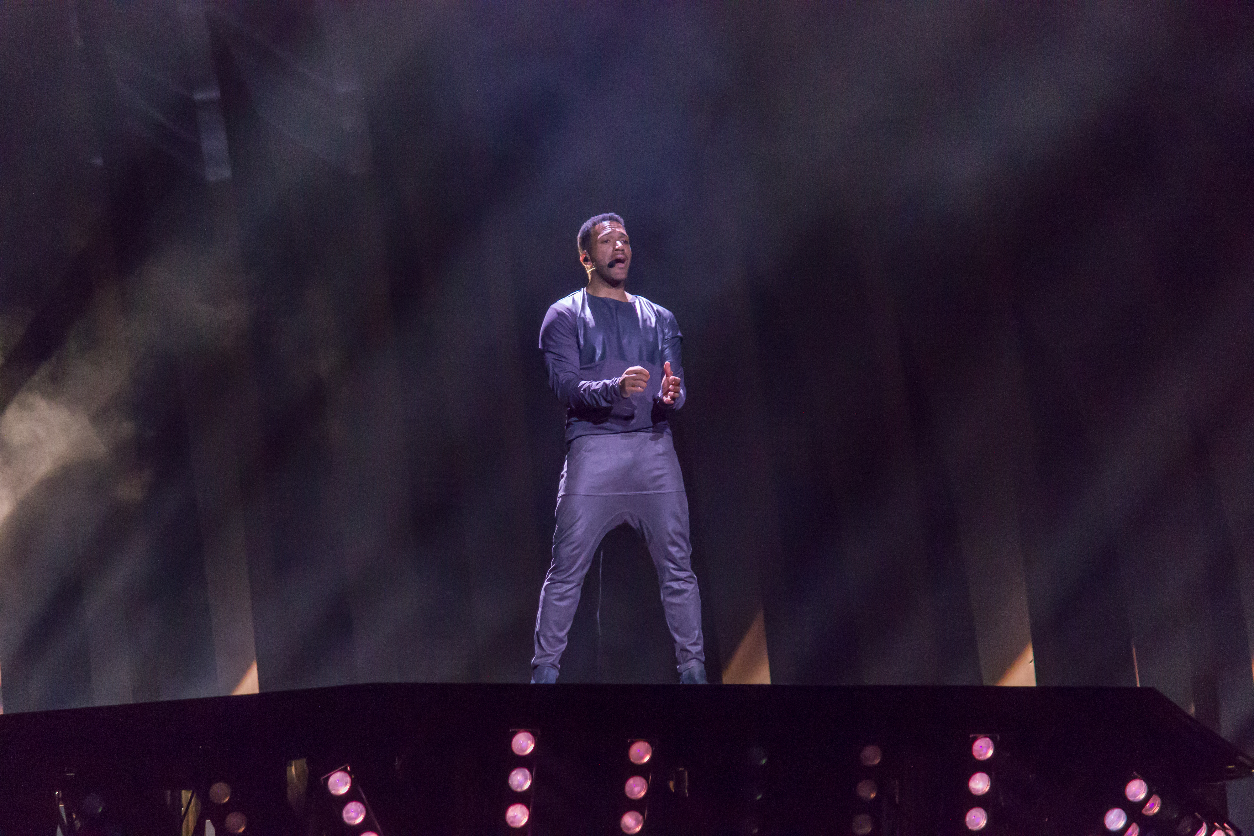 Cesár Sampson performing in Eurovision 2018